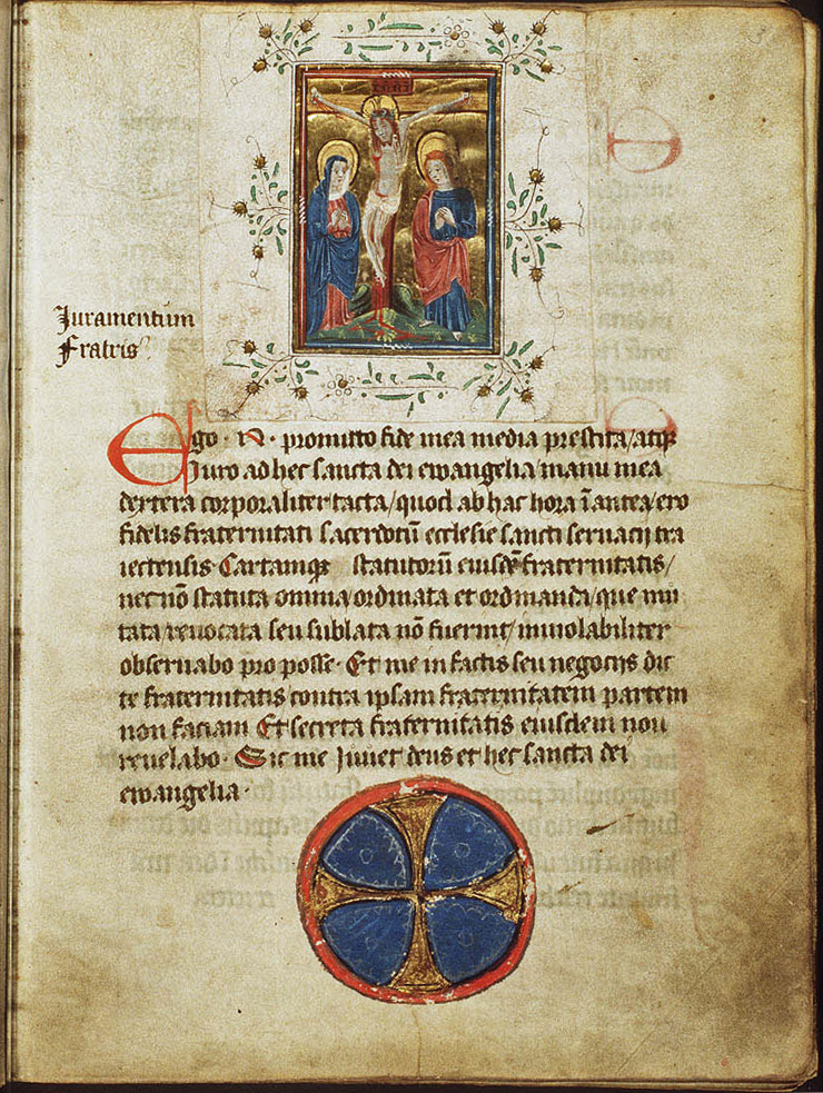 Page from the statutes and regulations of the Chapter of St. Servatius in Maastricht, the Netherlands. The illuminated manuscript has been dated to 1324 or 1441; the binding is from the 15th century. Since 1901 in the collection of Koninklijke Bibliotheek, The Hague (KB : ms. 132 G 35).